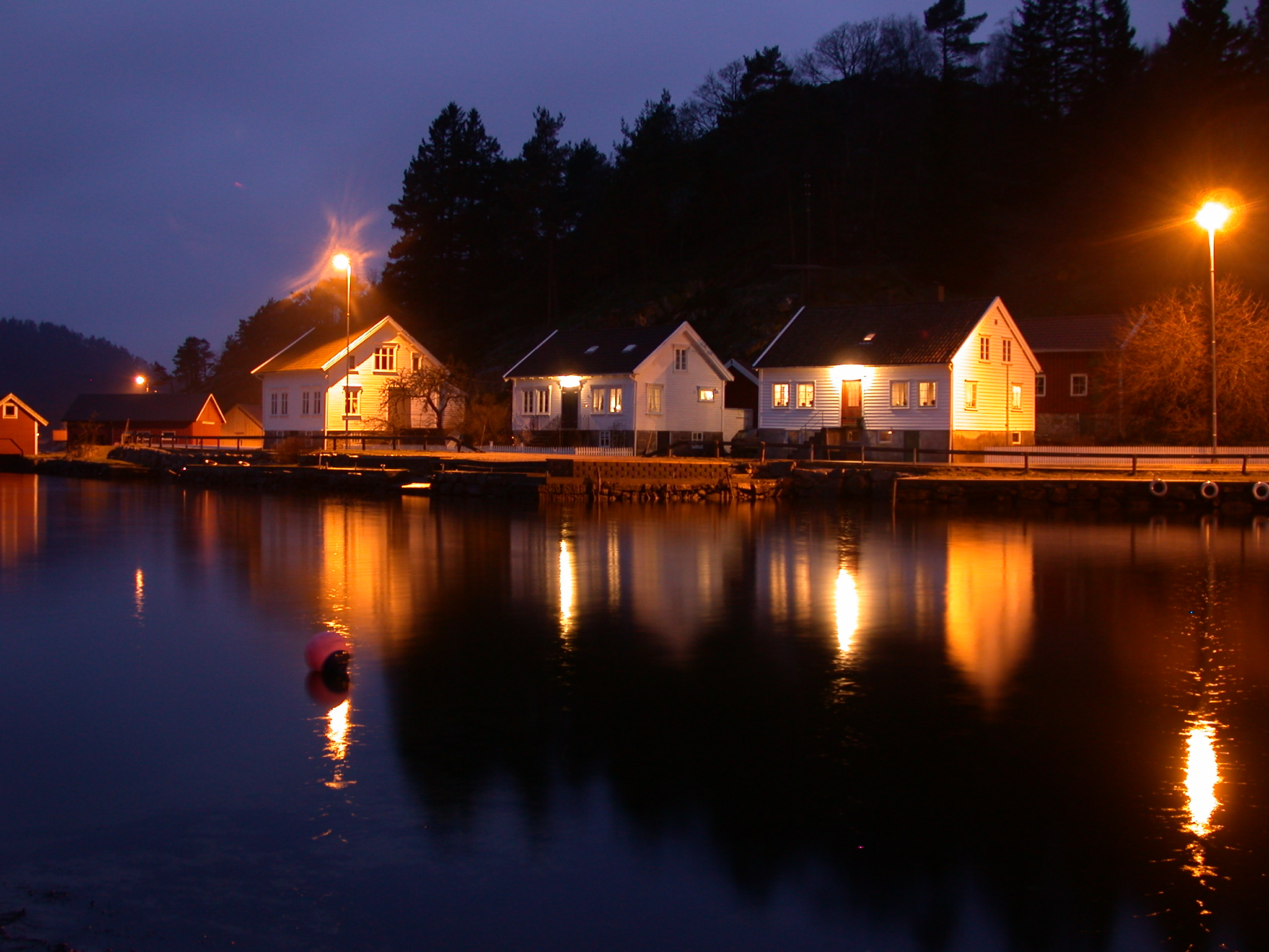 Beach place Snig